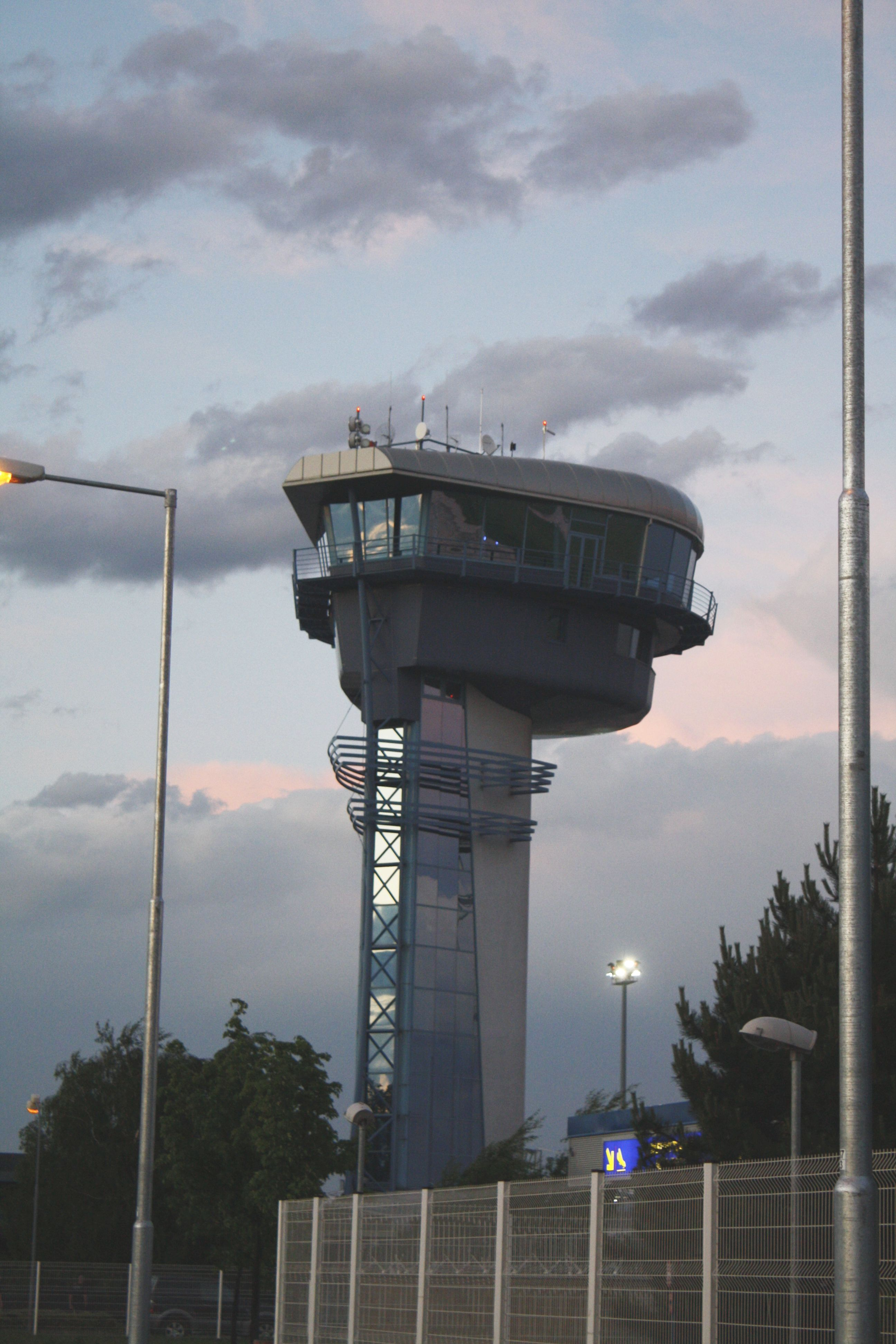 Tower of M. R. Štefánik Airport in Bratislava